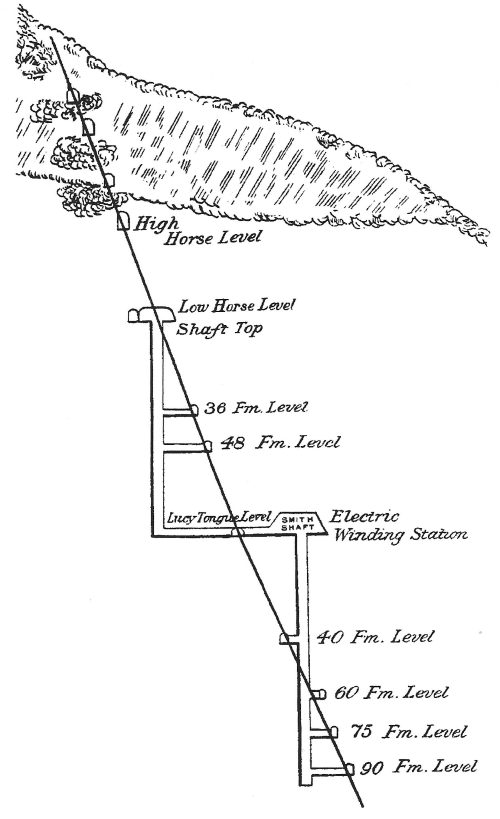 Greenside Mine cross-section showing Low Level Shaft and Smith's Shaft